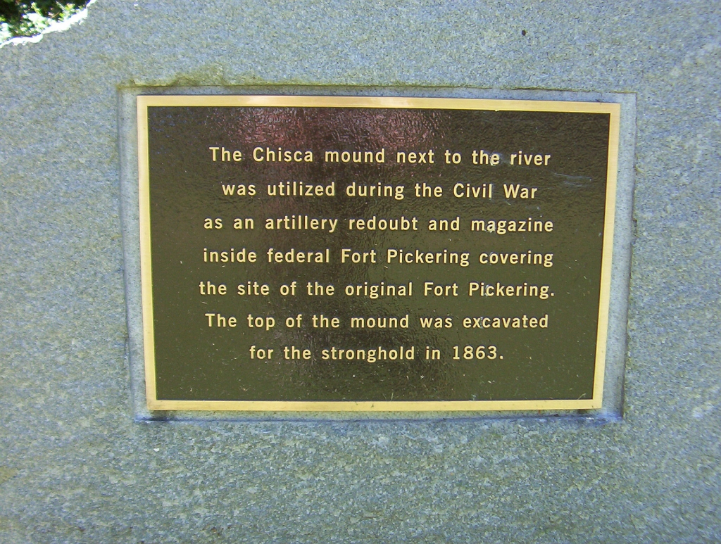 Location is in the Chickasaw Heritage Park at Metal Museum Drive in Memphis, Tennessee. Images show Paleo-Indian mounds of unknown age. The site was Chief Chisca's Chickasaw fortress. In 1739 it was the location of French Fort Assumption. In the Civil War it was the site of Confederate Fort Pickering. For the use as Civil War Fort the top was hollwed out and artillery placed there, an ammunition bunker was dug into the side of the mound. Plaque Fort Pickering.